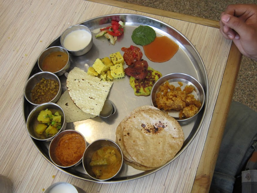 Gujarat Thali at Athiti Restuarent, Gandhinagar, Gujarat